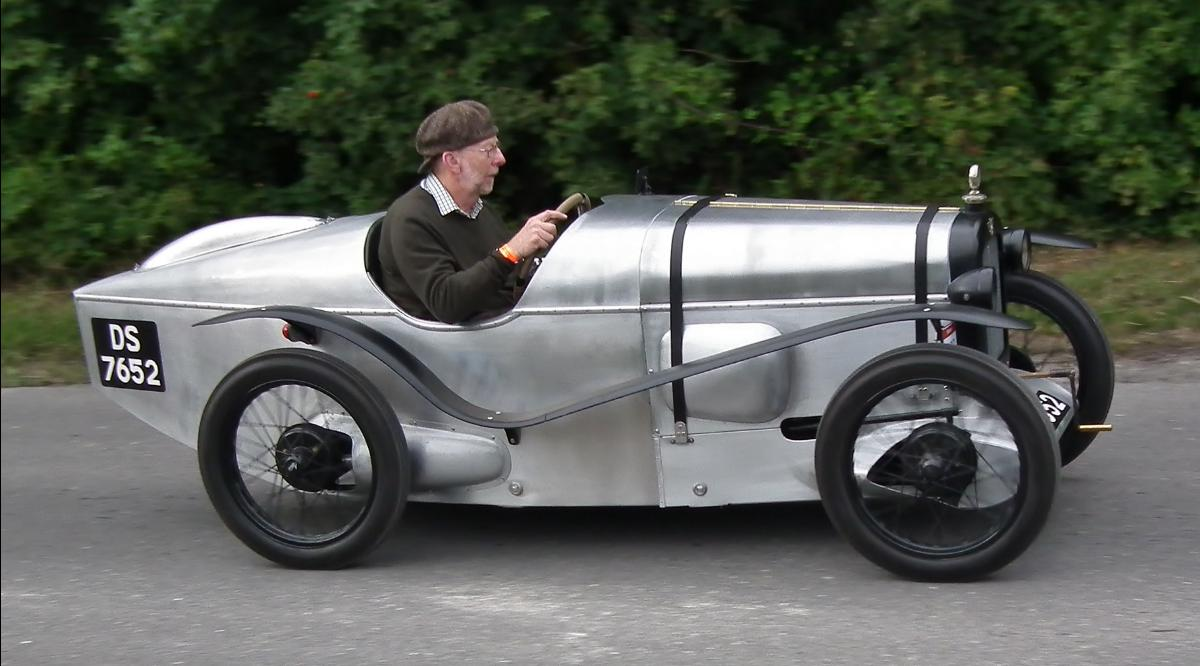 Austin Seven `Gordon England `Brooklands - Kop Hill 2013